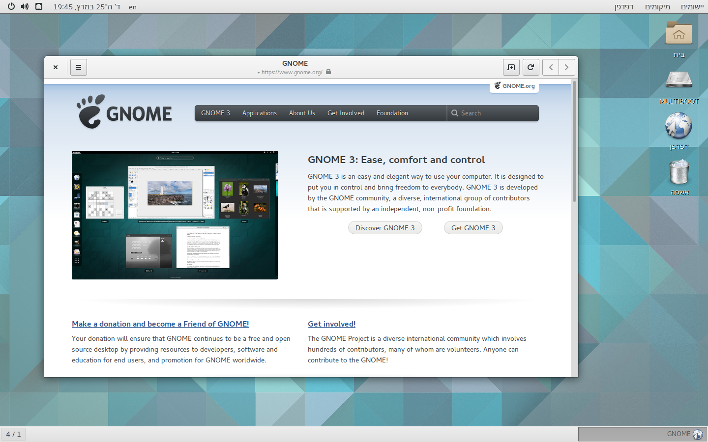 GNOME Classic 3.16.0 Hebrew